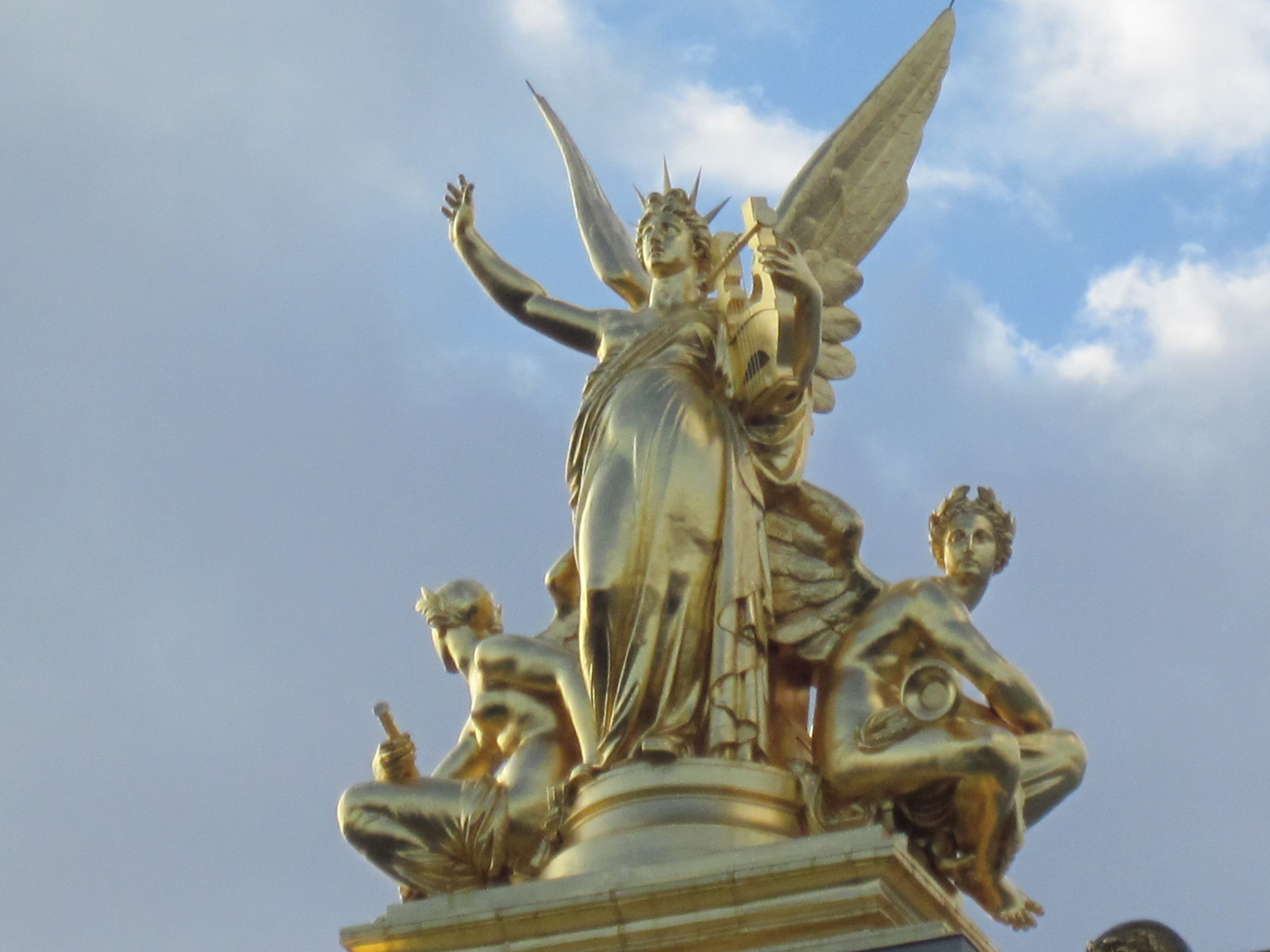 Taken during a trip to Paris